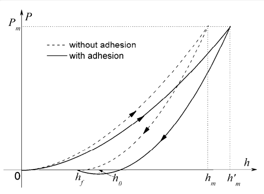 force-displacement curves showing the effect of adhesion force